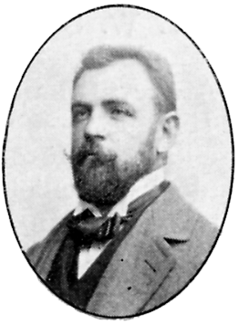 Image scanned from the book "Svenskt Porträttgalleri XX - Arkitekter, Bildhuggare, Målare m.fl. " ("Swedish Portrait Gallery XX - Architects, Sculptors, Painters, ") published 1901